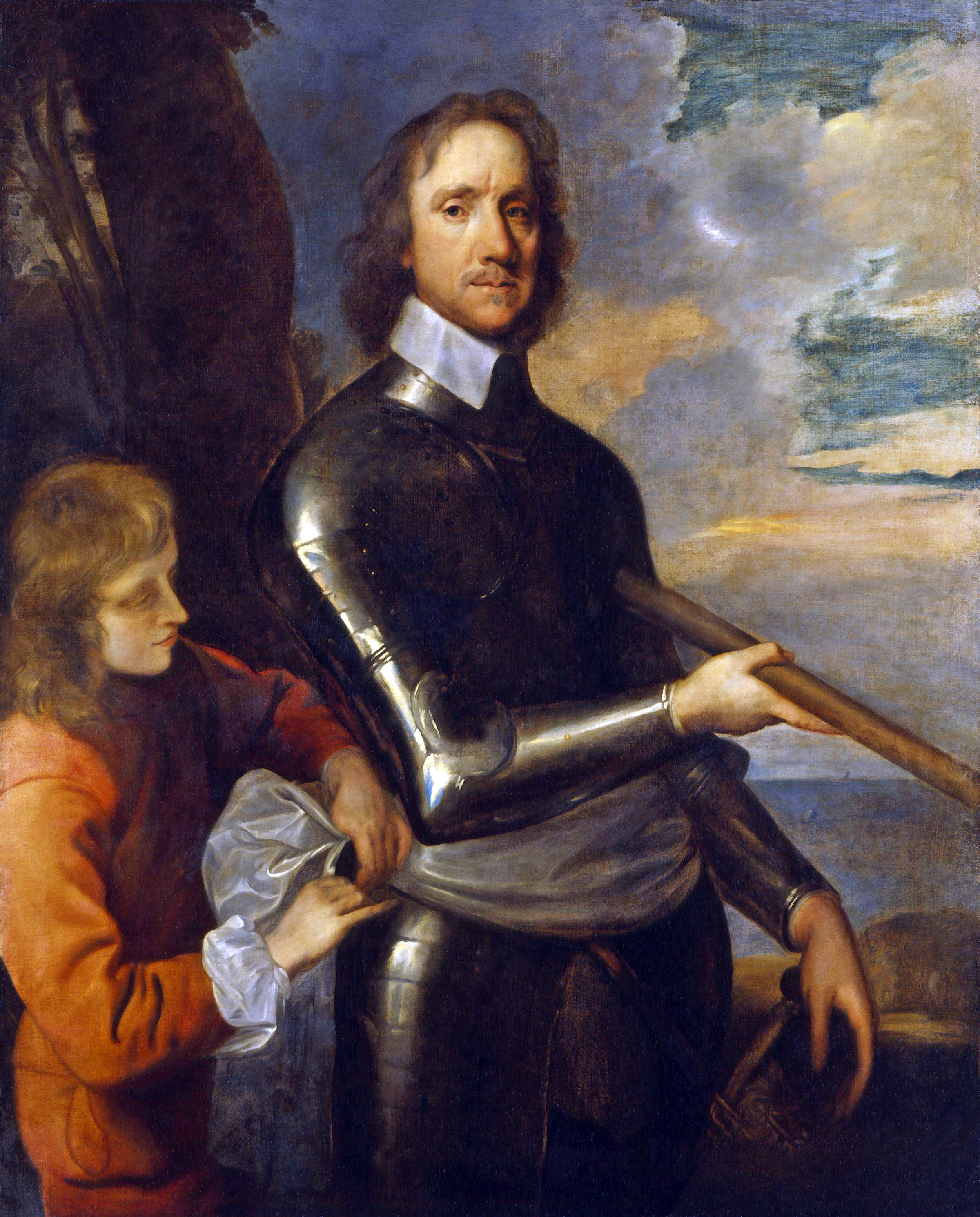 All images in this batch have been confirmed as author died before 1939 according to the official death date listed by the NPG.